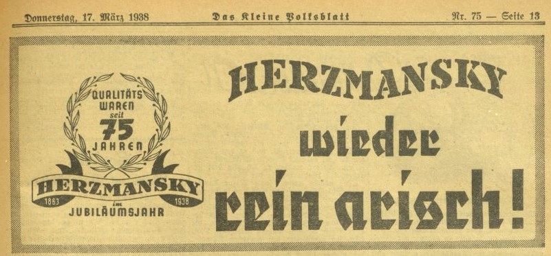 Advertisement for the Herzmansky warehouse in Vienna, confiscated by Nazi "aryanisation" in 1938. It says "Herzmansky is Purely Aryan Again"